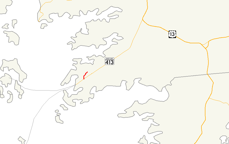 Map of Maryland 358